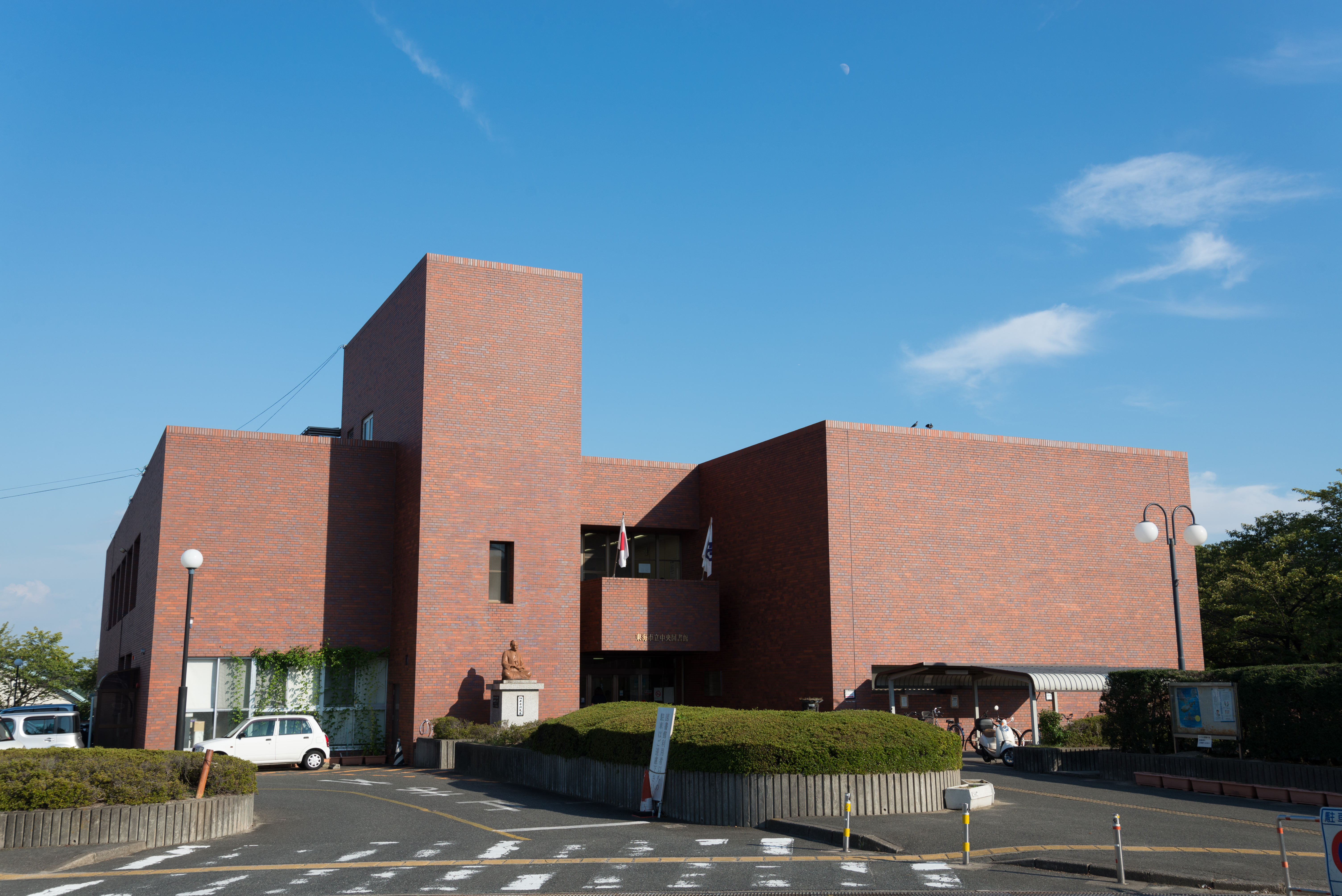 Tokai city Central library in Tokai city, Aichi prefecture, Japan.